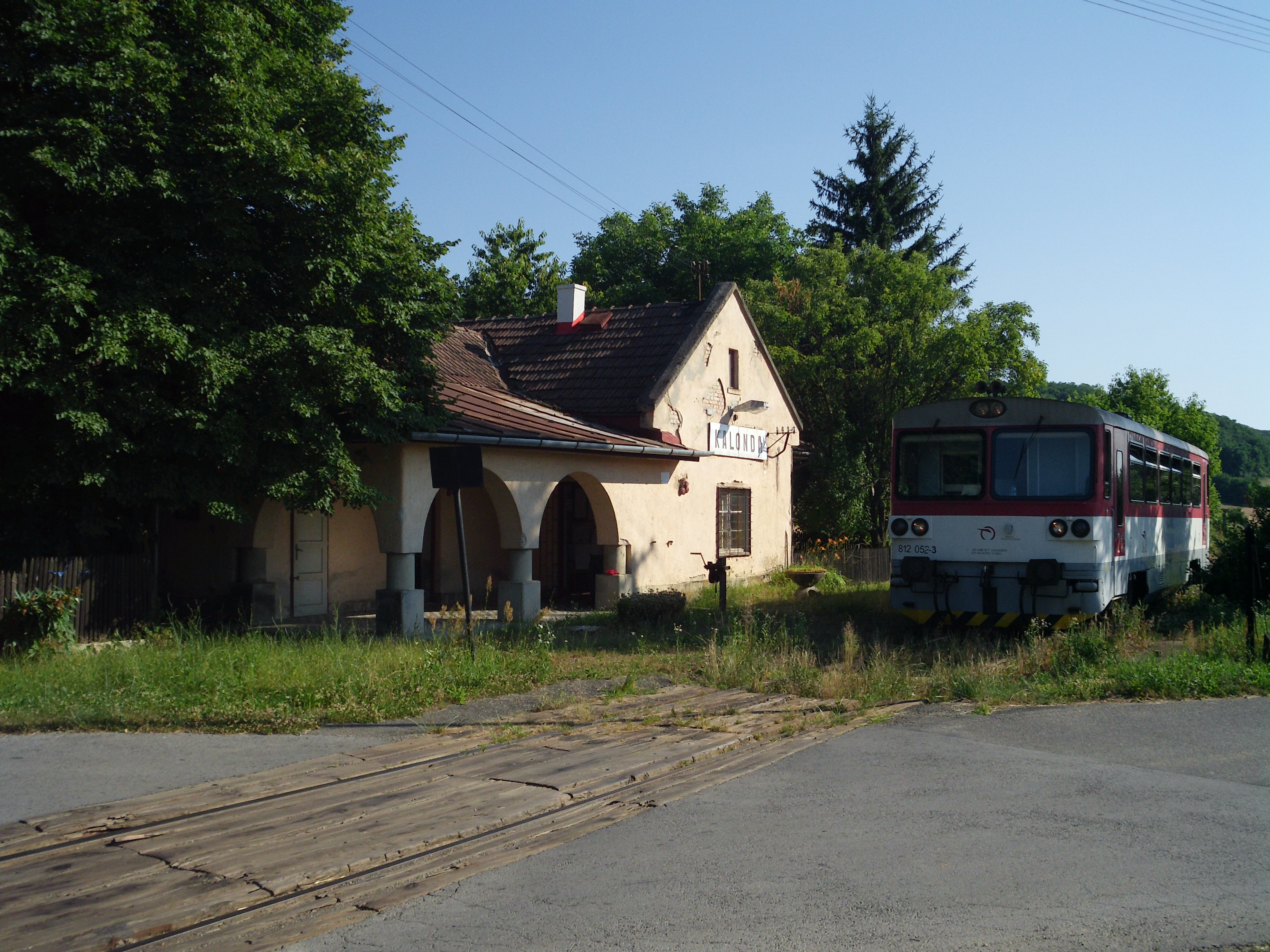 An 812-class railcar of ZSSK at a former train stop in Kalonda, Slovakia, on a route from Lučenec to Veľký Krtíš.